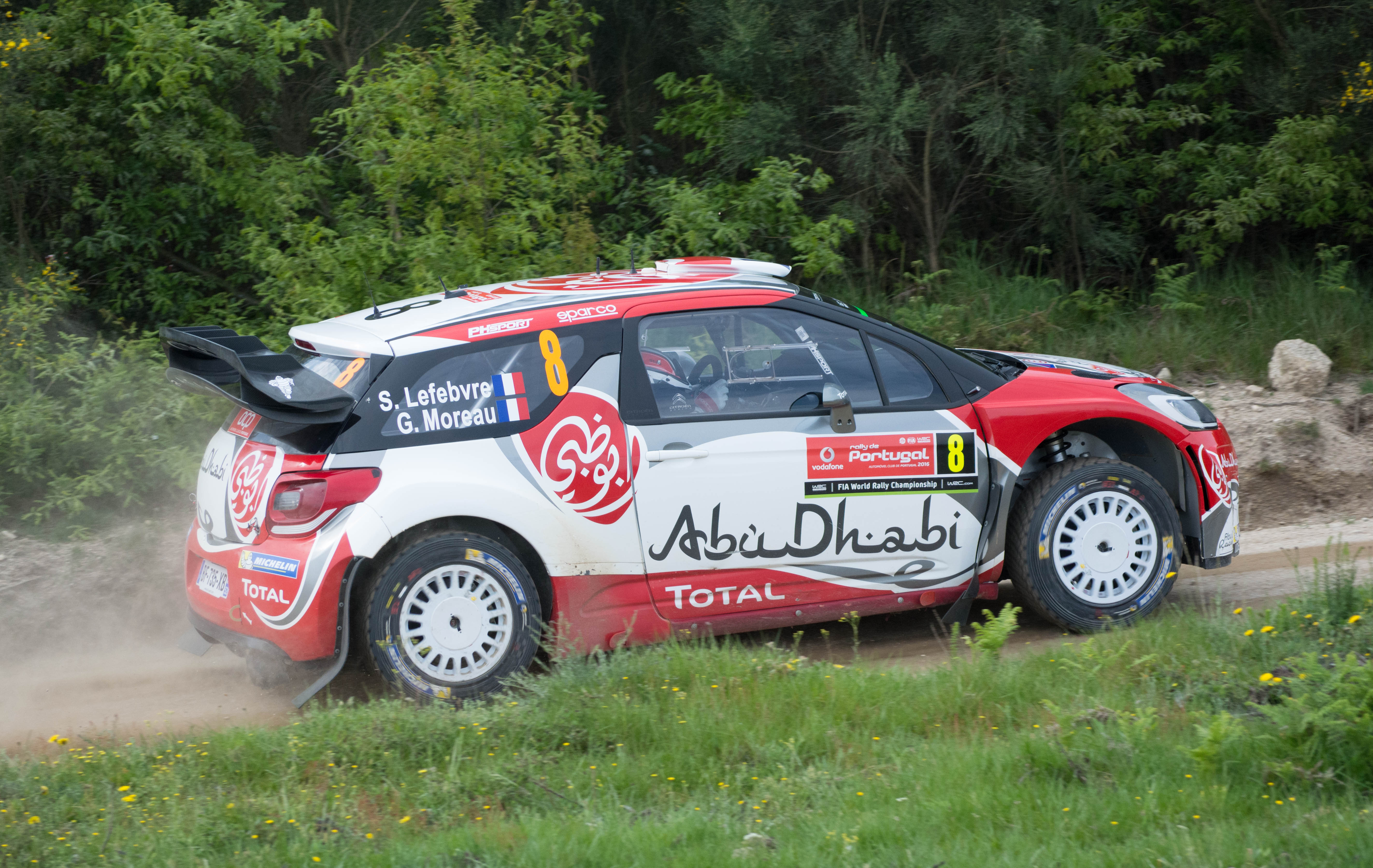 Rally of Portugal 2016. Section of "Baião", on the first pass